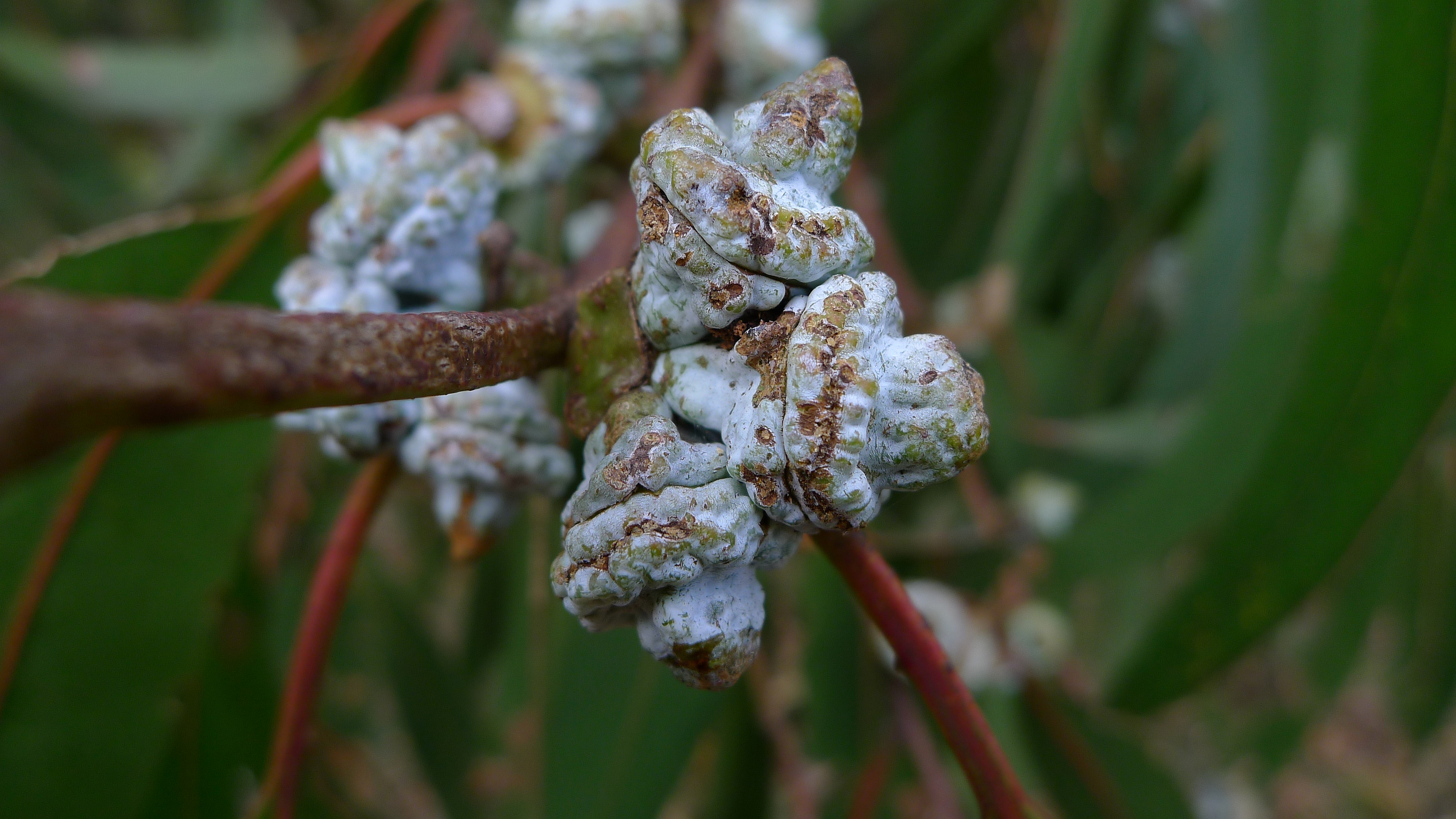 Gippsland Blue Gum, Eucalyptus pseudoglobulus. Waterford Gippsland Victoria Australia, September 2011.